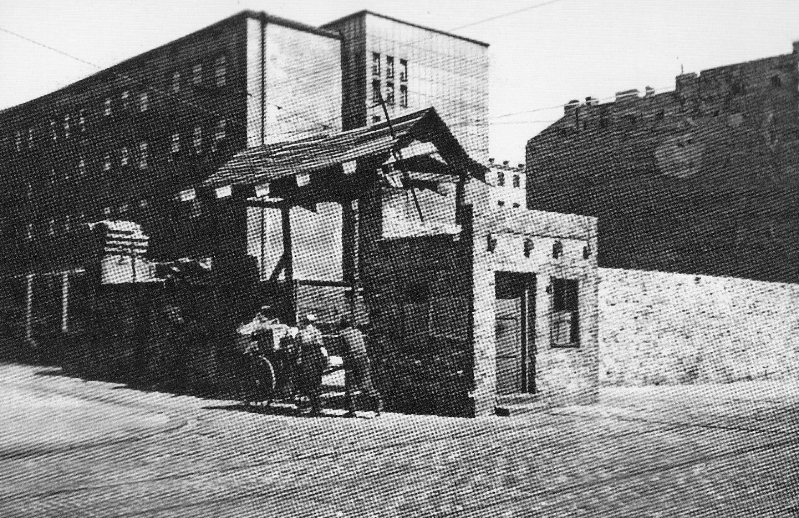 Warsaw Ghetto. A gate in Leszno Street at the intersection with Żelazna Street